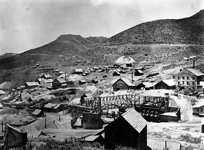 Comstock Lode near Virginia City, Nevada. Photo by T.H. O'Sullivan. U.S. Geological Exploration of the Fortieth Parallel (King Survey).